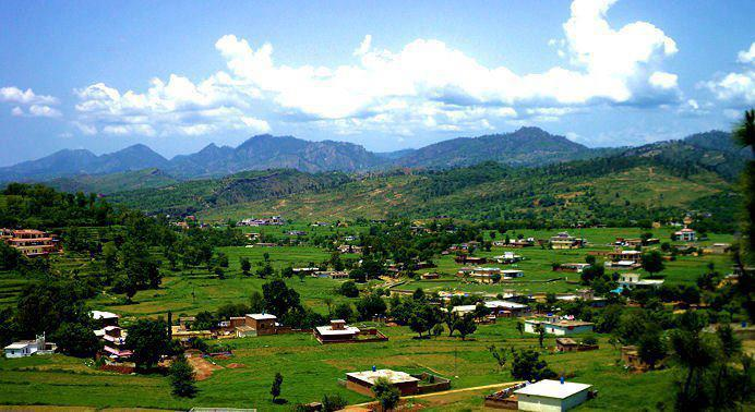 Khunna Jandalla Samahni AJK